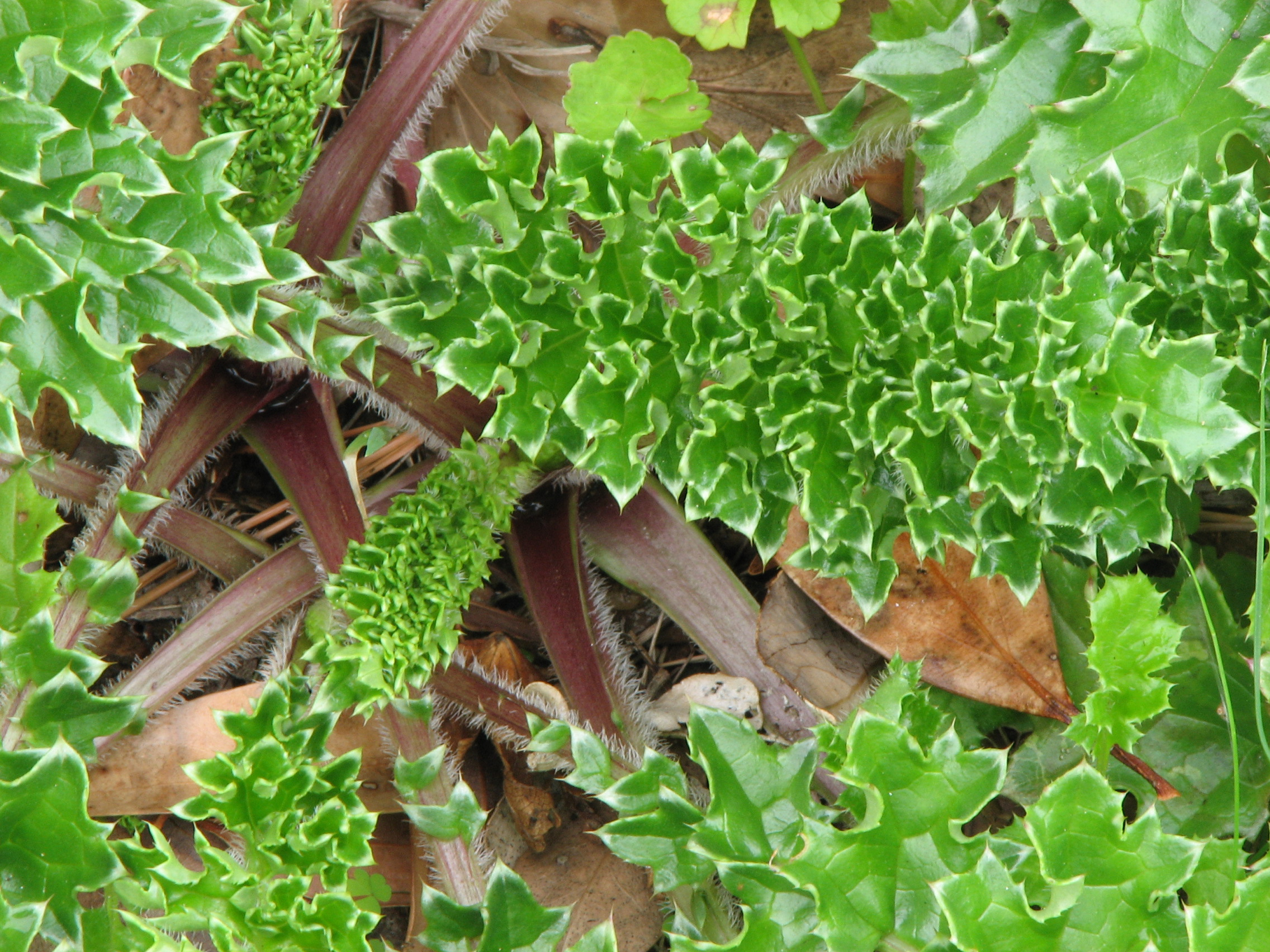 Cirsium maritimum at Hachijo is. Tokyo Japan.